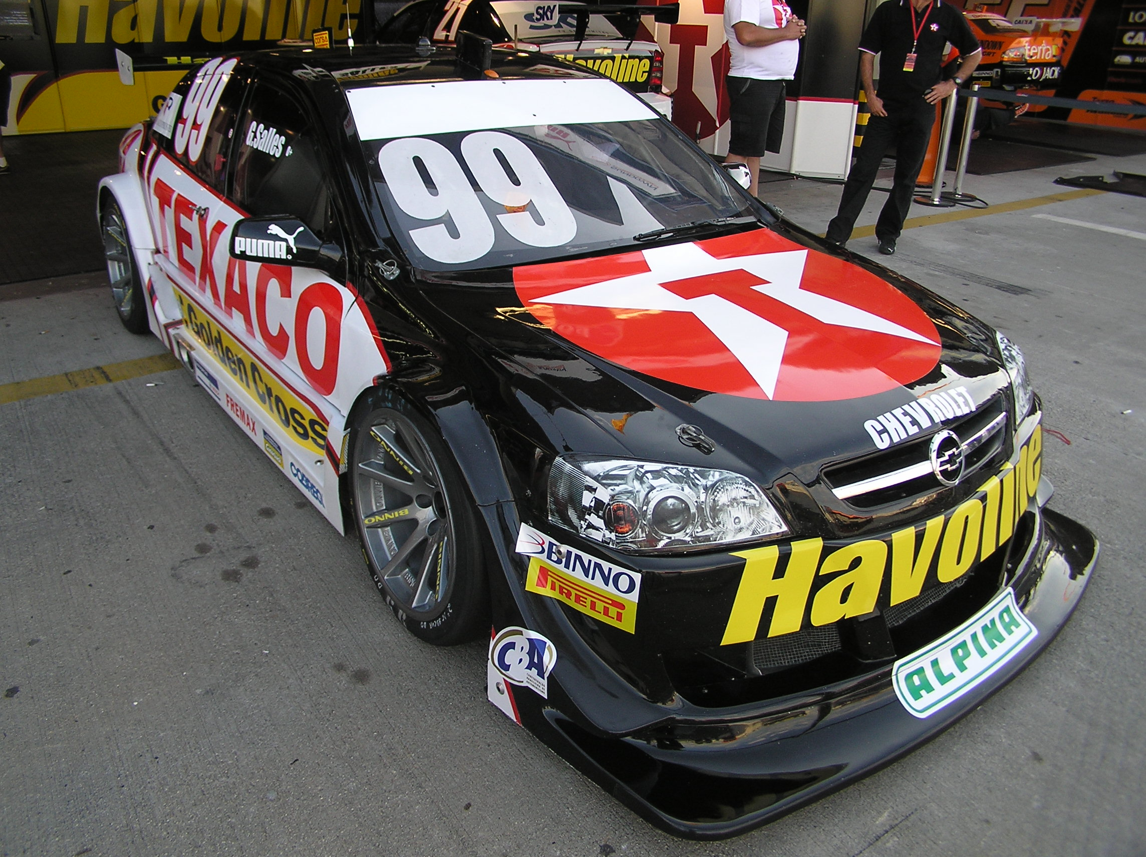 Stock Car V8 Brasil: Chevrolet Astra #99 Vogel Motorsport, the car of Gualter Salles.